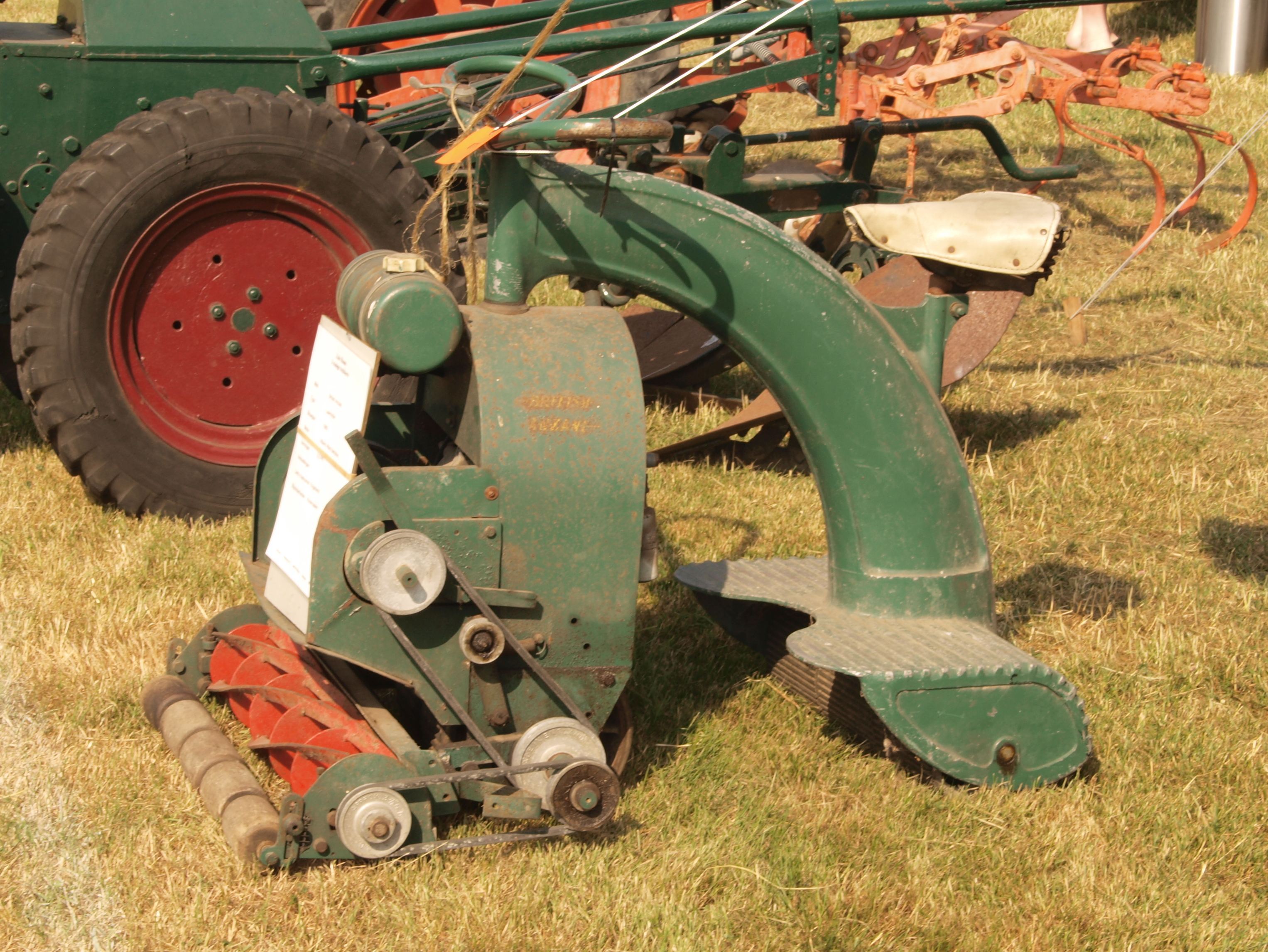 Photographed in The Netherlands. British Anzani lawnmower.